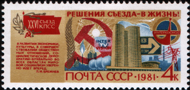 The stamp of the Soviet Socialist Republic devoted to decisions of XXVI congress of the CPSU, 1981, 4 k.